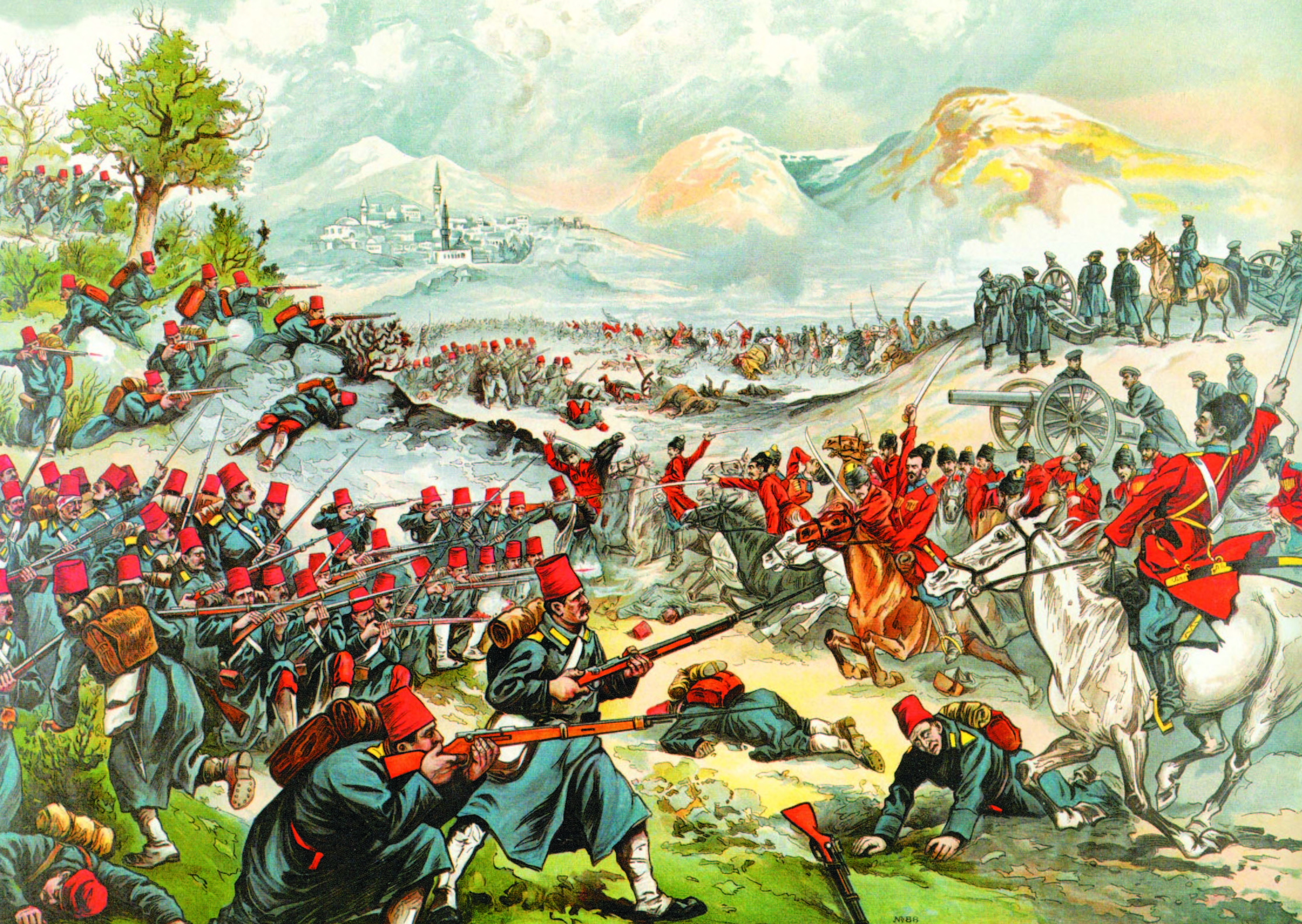 russian propaganda poster depicting the russian victory at the battle of sarikamish